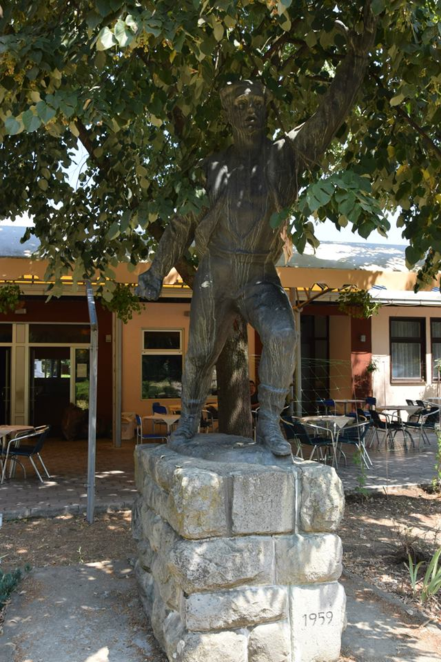 Склуптура „Позив на устанак“ у Вучју